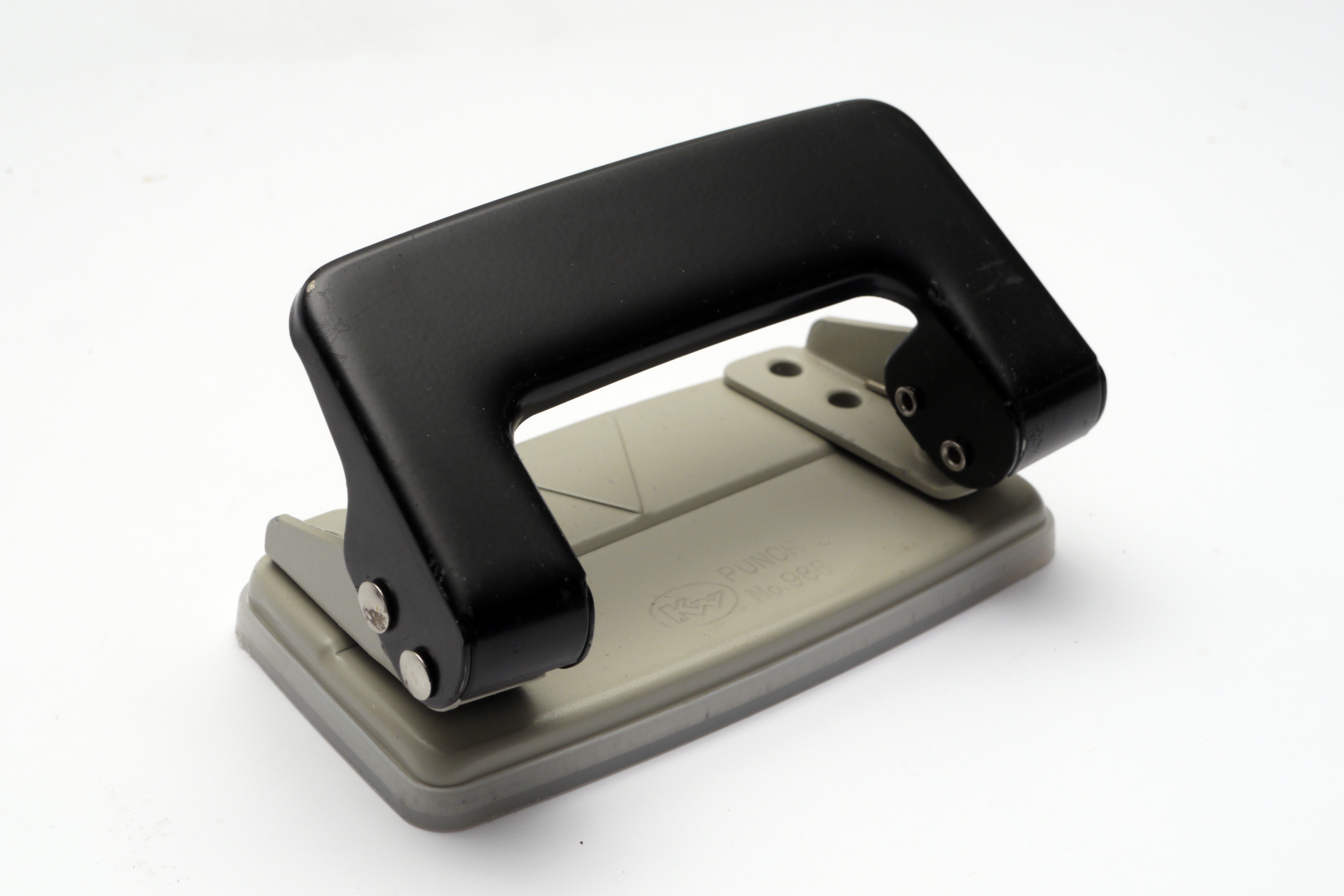 Two-hole (filebinder) hole punch